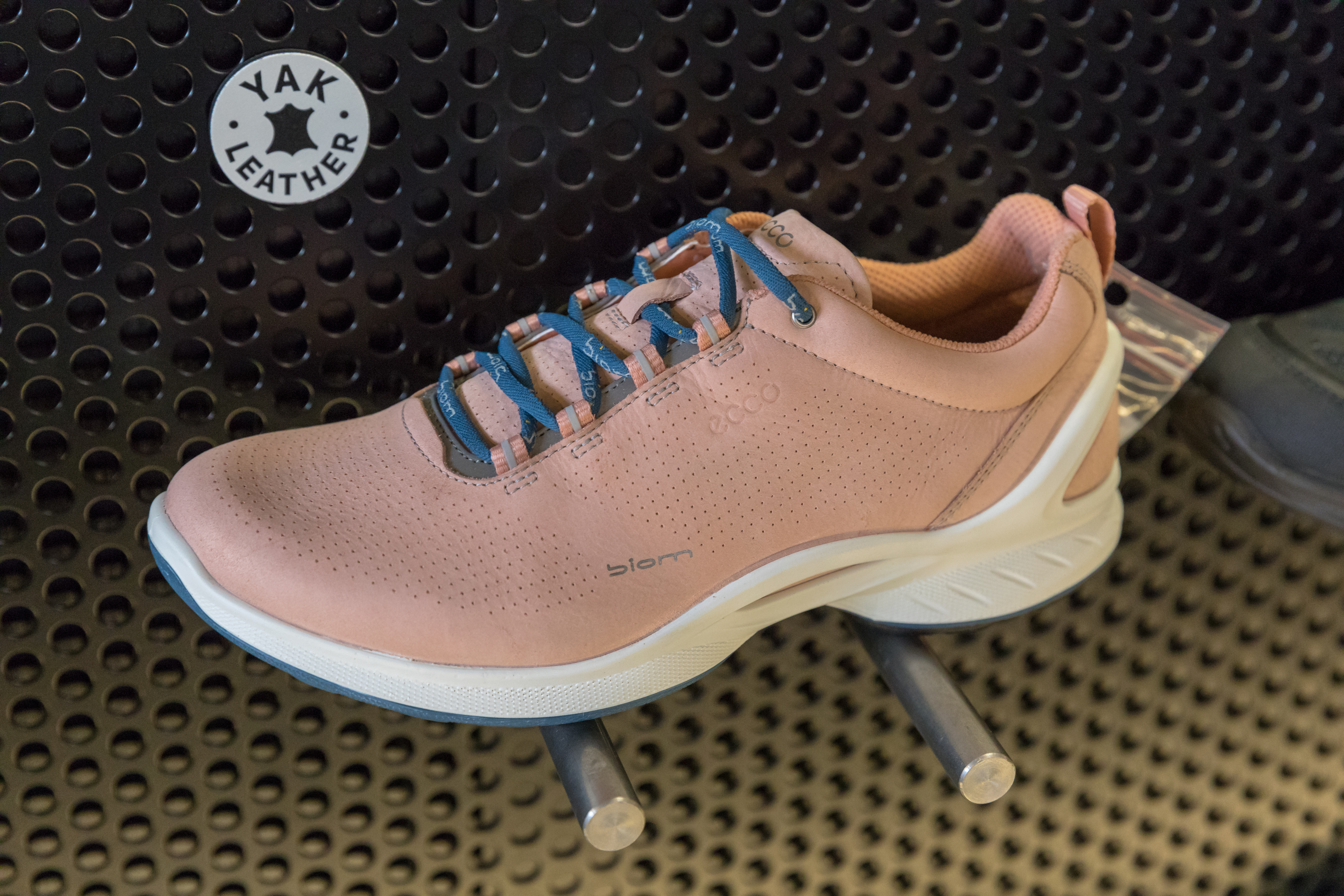 OutDoor 2018